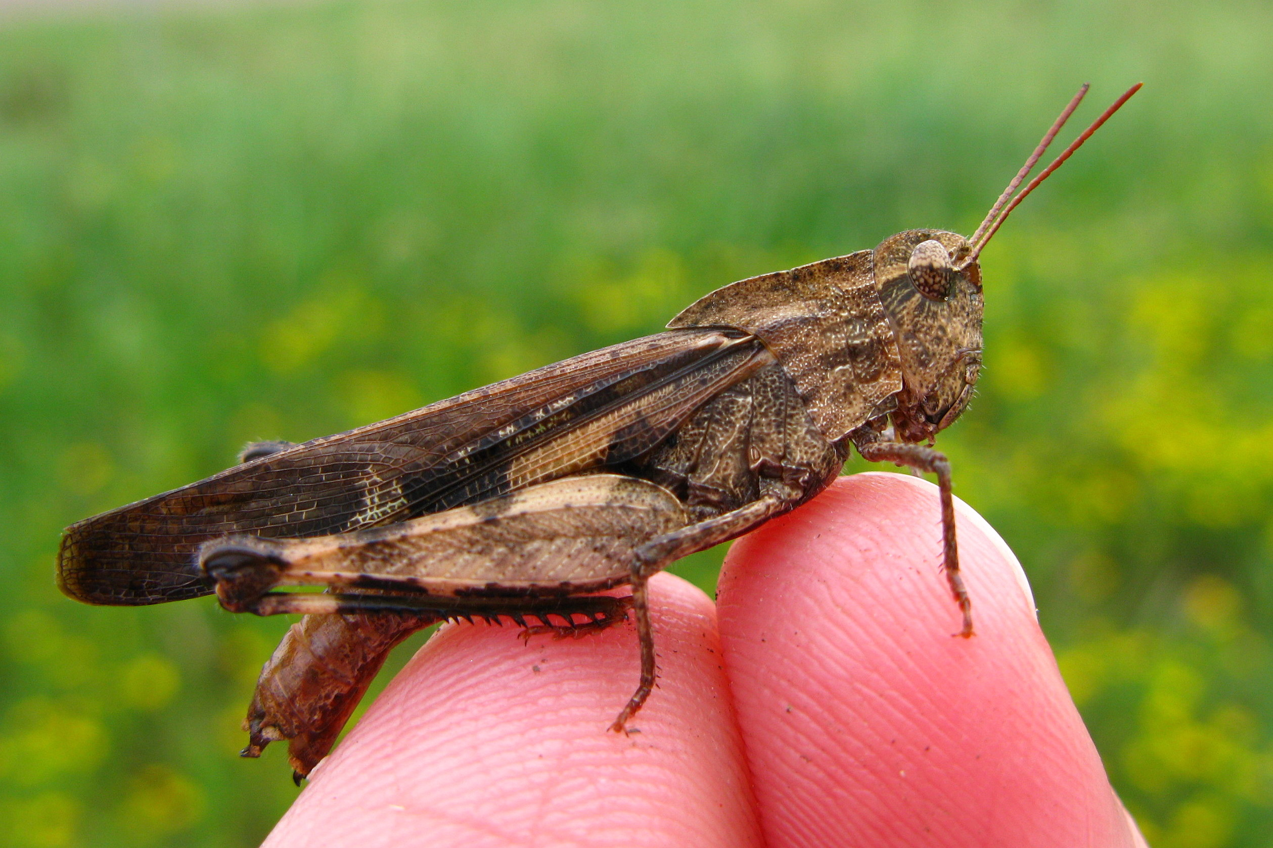 Female Chortophaga viridfasciata (Green-striped Grasshopper). Her green stripe isn't visible in this photo.